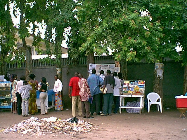 This is an image with the theme "Africa on the Move or Transport" from: Congo